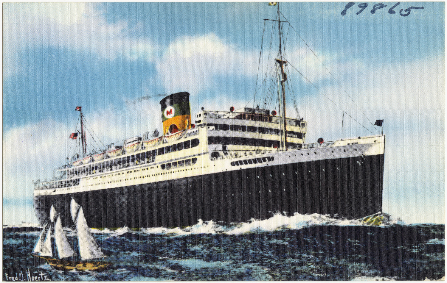 A Moore-McCormack turbo-electric liner under way at sea. This is one of three sister ships: SS Argentina, SS Brazil and SS Uruguay. The name is omitted from the bow. The trio were built in 1927–29 as the Panama Pacific Line ships SS California, SS Pennsylvania and SS Virginia, and passed to Moore-McCormack in 1938. All three ships served as US Army troopships in 1942–46, survived the war and returned to civilian service in 1948. They were laid up in the 1950s and scrapped in 1964. The image is a colorgraph made by Harry H Baumann of New York from an original picture by Fred J Hoertz.